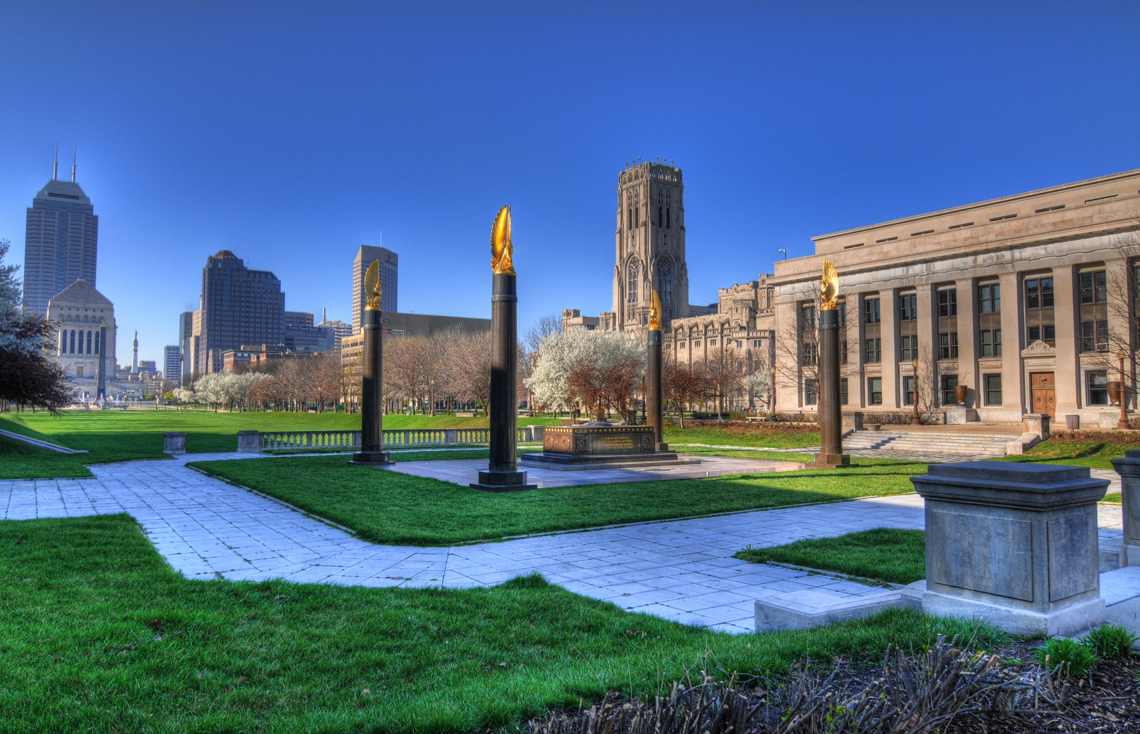 Indy Photo Coach HDR Class with John Perez Indianapolis World War Memorial. HDR from 5 shots bracketed by shutter stop 125 - 2000 Photomatix